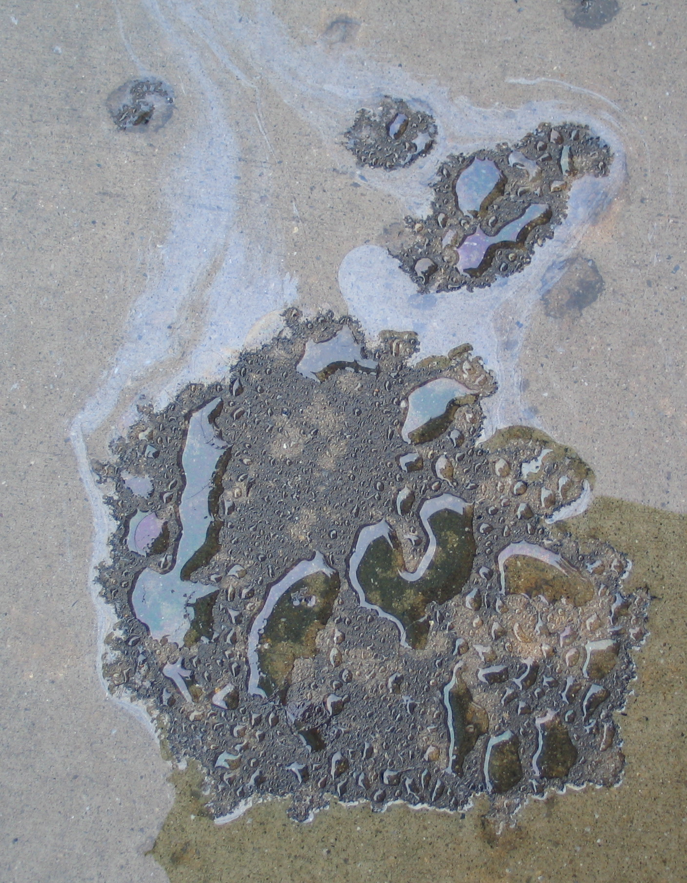 An oil-puddle on the pavement during rain. Picture created and uploaded by Roger McLassus (both on 14 Oct 2006)